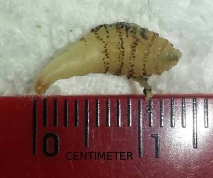 Dermatobia hominis extracted from human being, about 3 weeks old